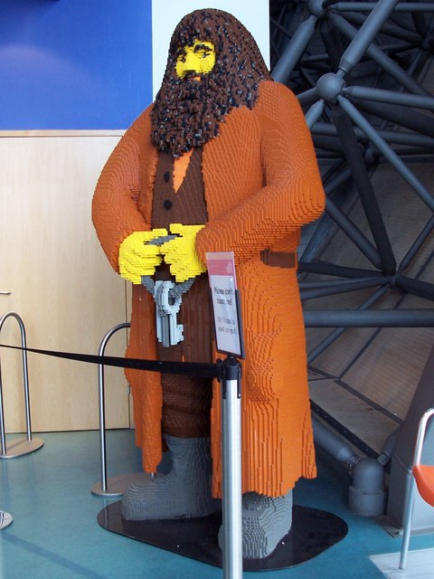 Hagrid Life size Lego model of the famous Harry Potter character in the foyer of Glasgow Science Centre.